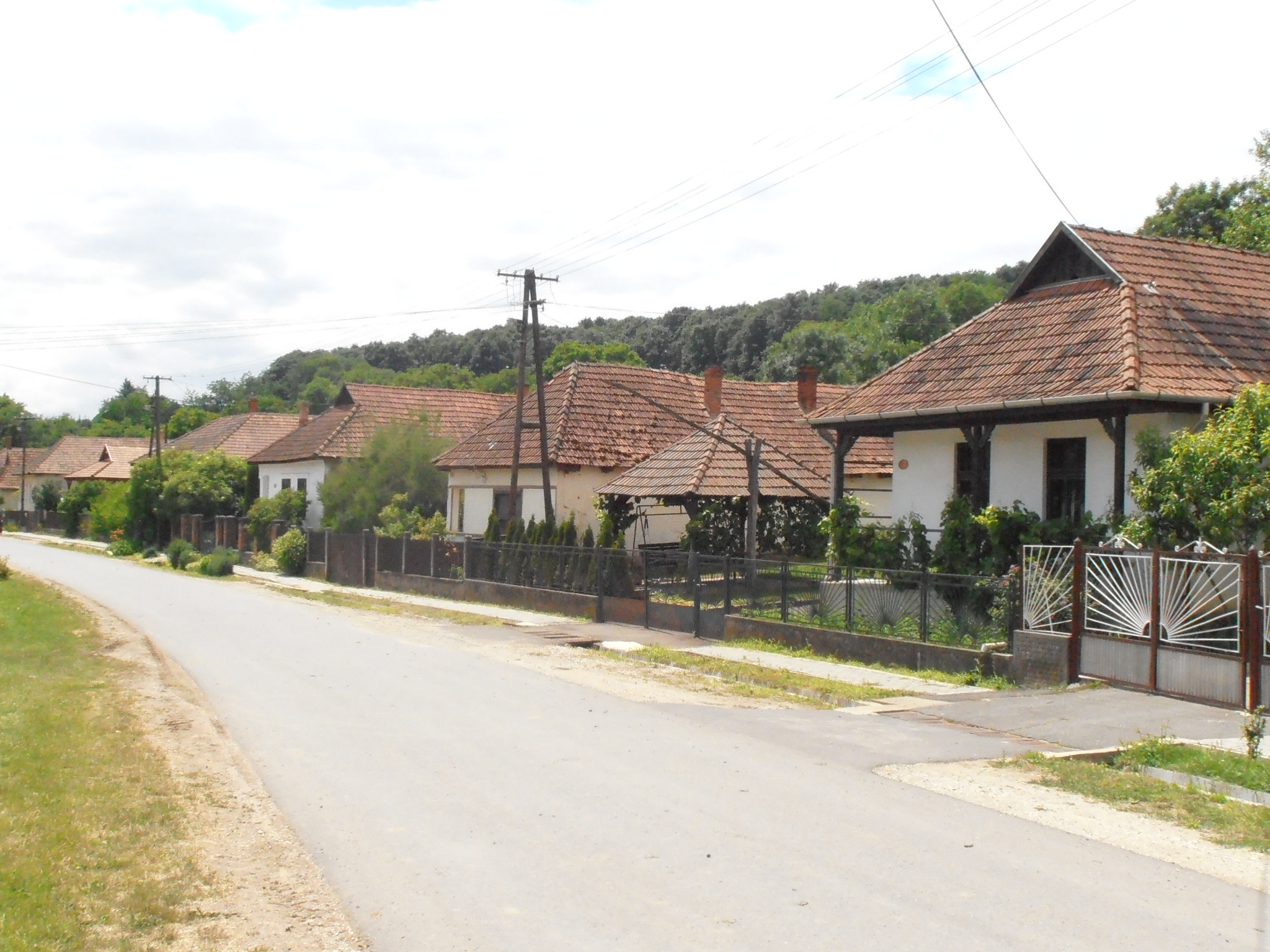 Street in Irota, Hungary